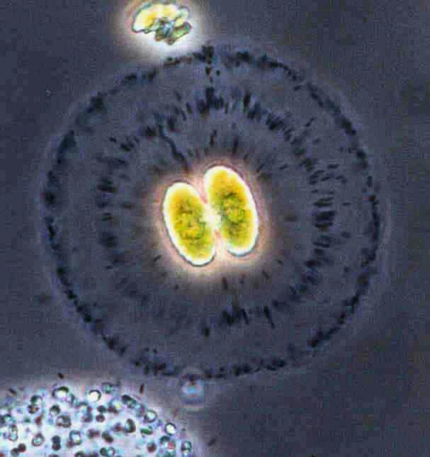 Images have been made by Nikon Eclipse E 600 light microscope using an original magnification of 400x - 600x range, at South-Transdanubian Emvironment Protection Inspectorate, Laboratory for Environment Protection (Hungary). Photos of algae have been taken from samples of natural surface waters of South-Transdanubian region; the majority originated from river Dráva and lake Baláta. Images have been made by phase contrast setting, whereas a blue color filter has been used instead of a green one recommended by the literature. The reason of the change is that although the green filter gives a sharp image, it reflects the shades of gray color only. When using a blue color filter, the sharpness of the image is barely reduced, but the colors of the object are retained. Scientific names of algal specie is Cosmarium depressum.